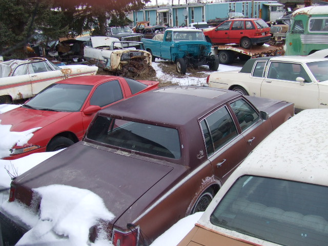 1978 Seville Elegante in Ruidoso Brown metallic over Western Saddle Firemist.